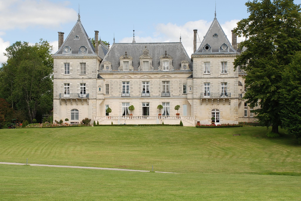 Chateau de Mirambeau, Mirambeau, France; western facade (2007)